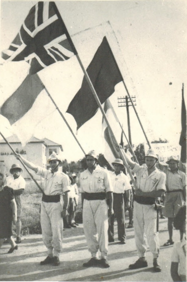 VE-day parade, Afula, Israel, 1945